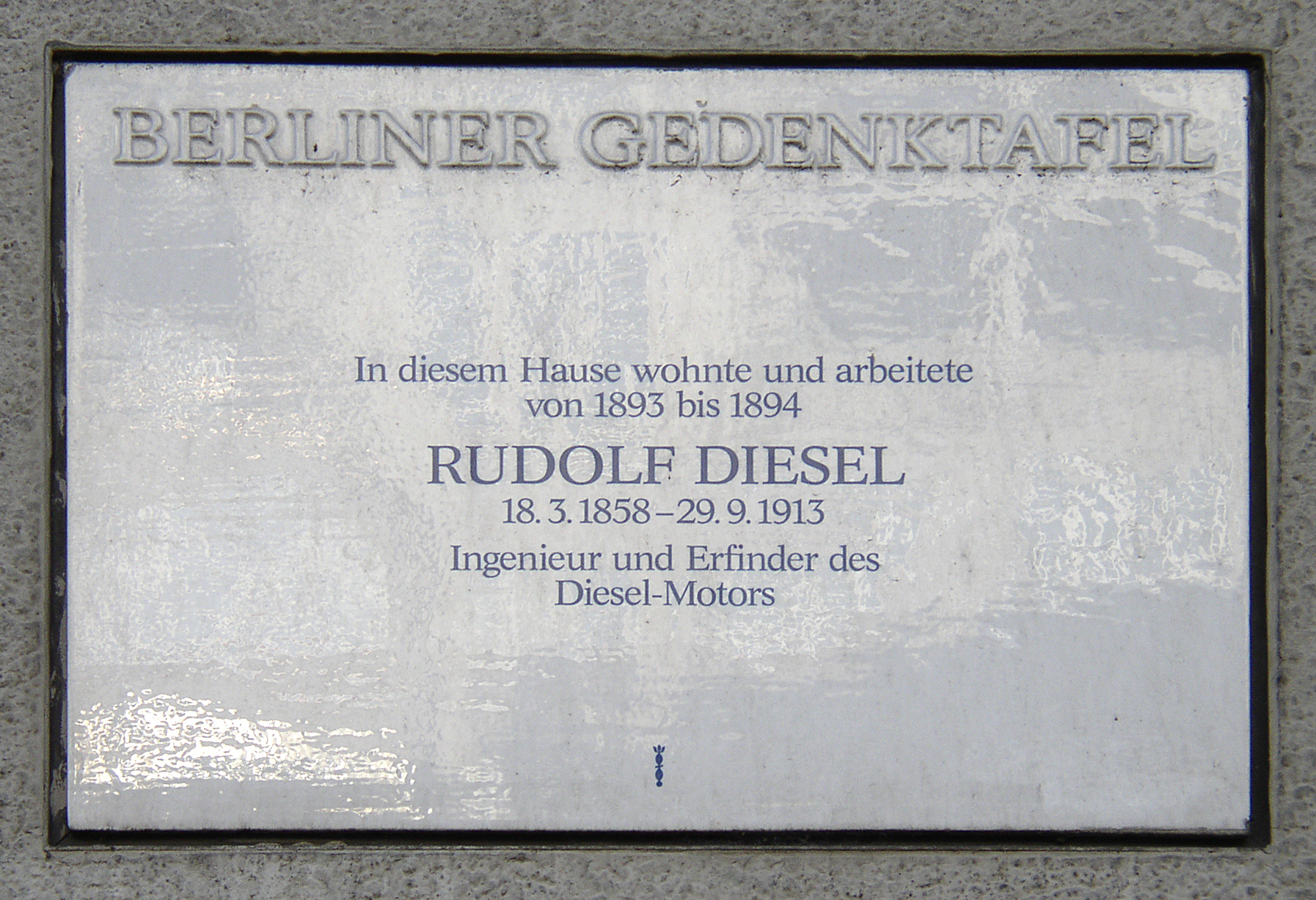 Berlin memorial plaque for Rudolf Diesel in Berlin-Charlottenburg, Germany